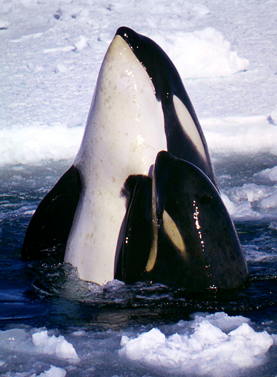 Mother-calf pair of "Type C" killer whales in the Ross Sea. Type C killer whales are smaller and occur in larger groups than killer whales found throughout the rest of the world. They prefer fast ice, are known to eat fish, including Antarctic toothfish, and may be a separate species.